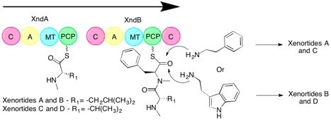 Domain organization of the biosynthetic gene cluster that produces xenortides A-D.